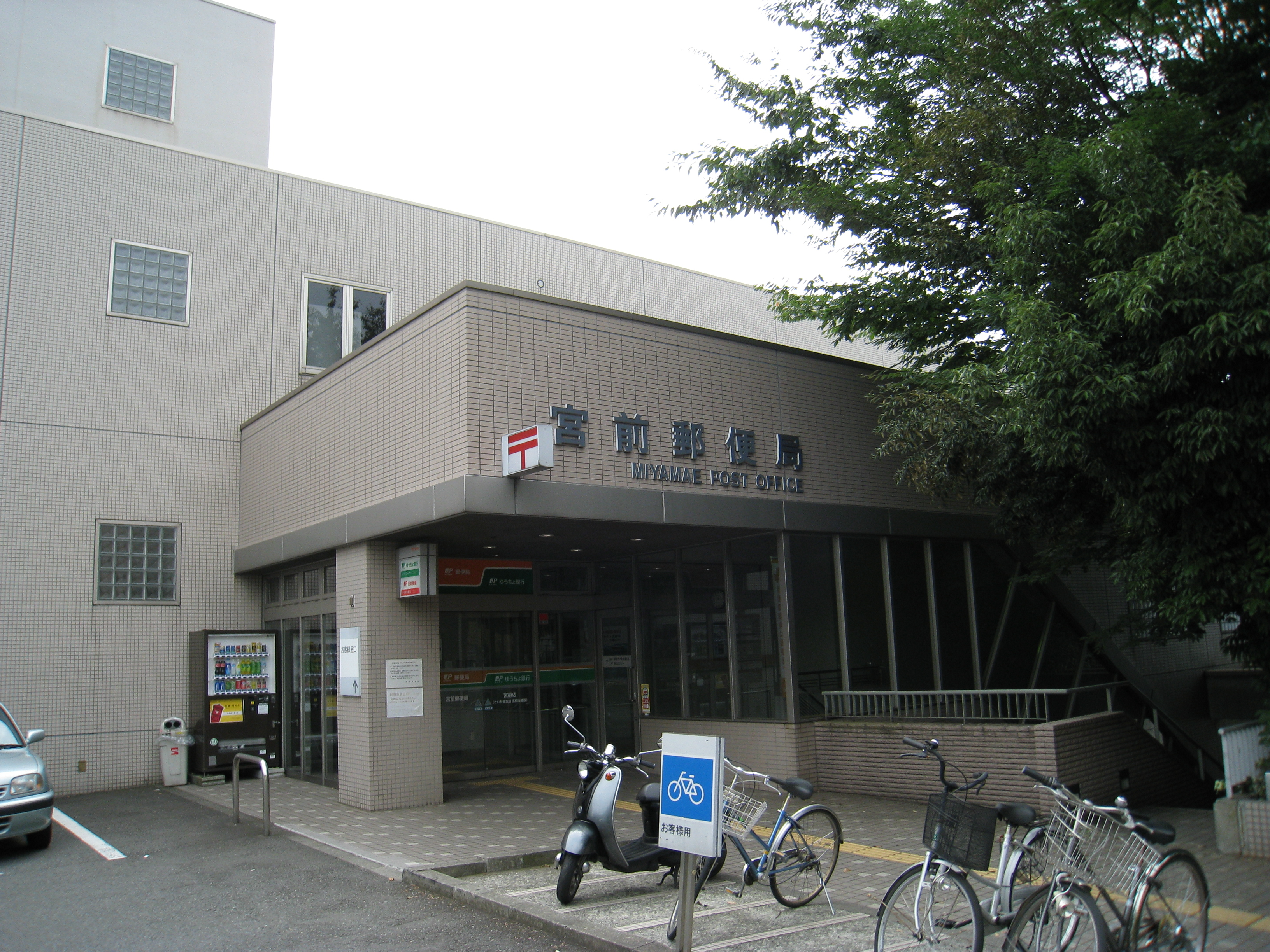 Miyamae Postoffice. Miyamae-ward, Kawasaki-city, Japan